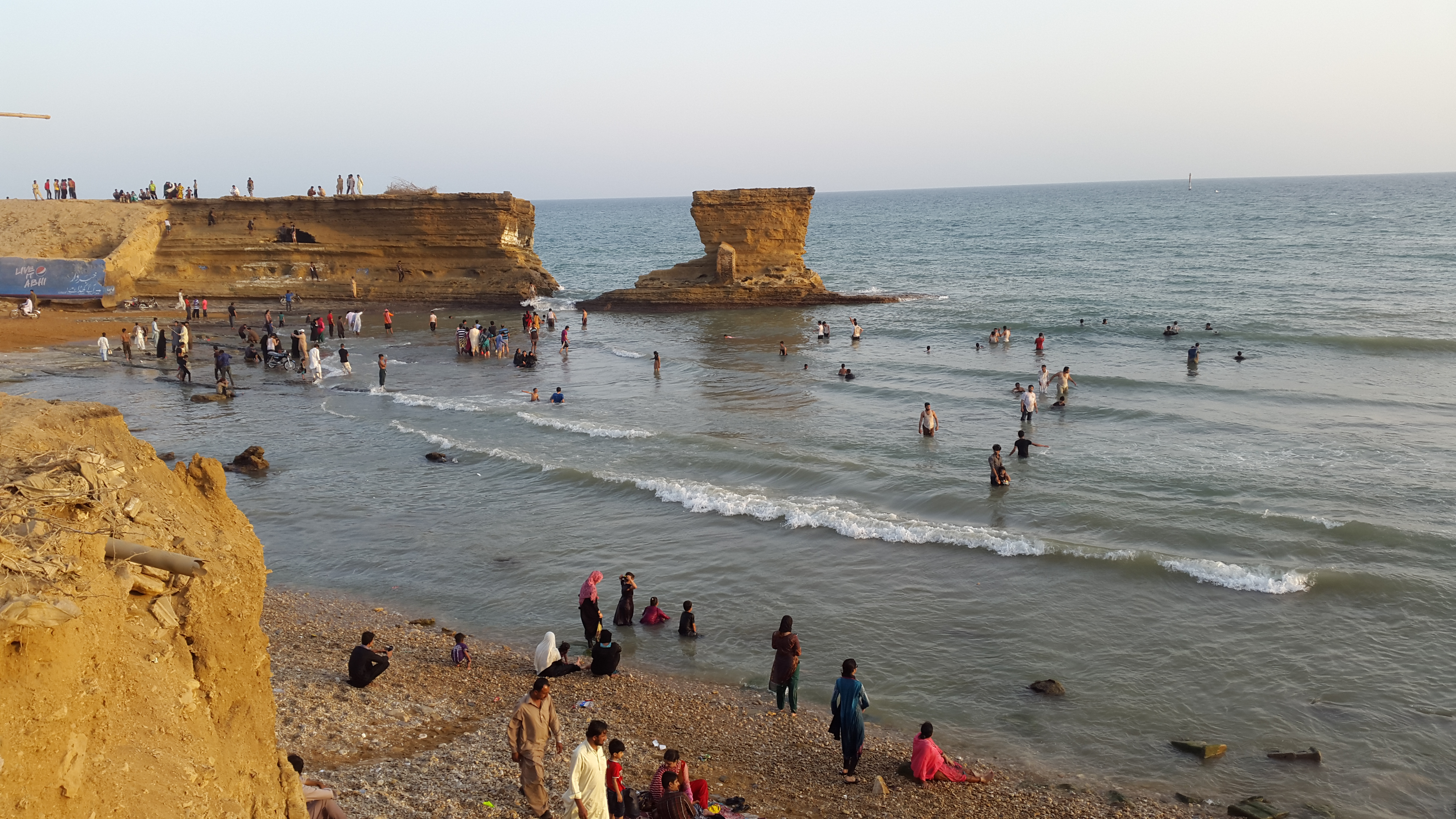 Paradise Point, near Karachi